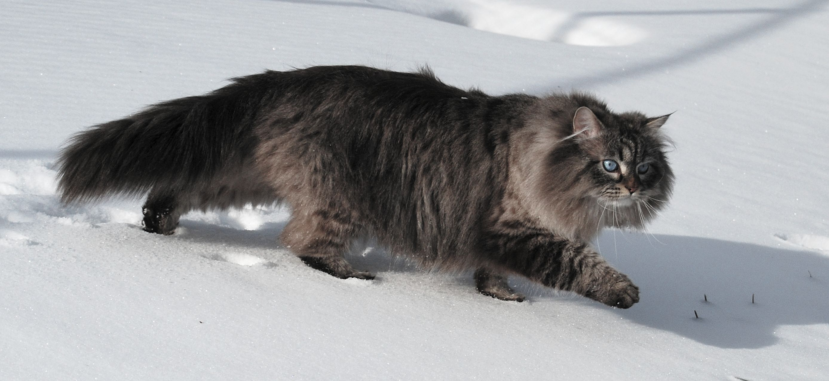 A seal lynx point adult male, currently the #1 Siberian in CFA and was the #1 Siberian kitten in CFA in 2009.